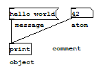 A screenshot of Pd's native objects: message, atom, object, and four comments.